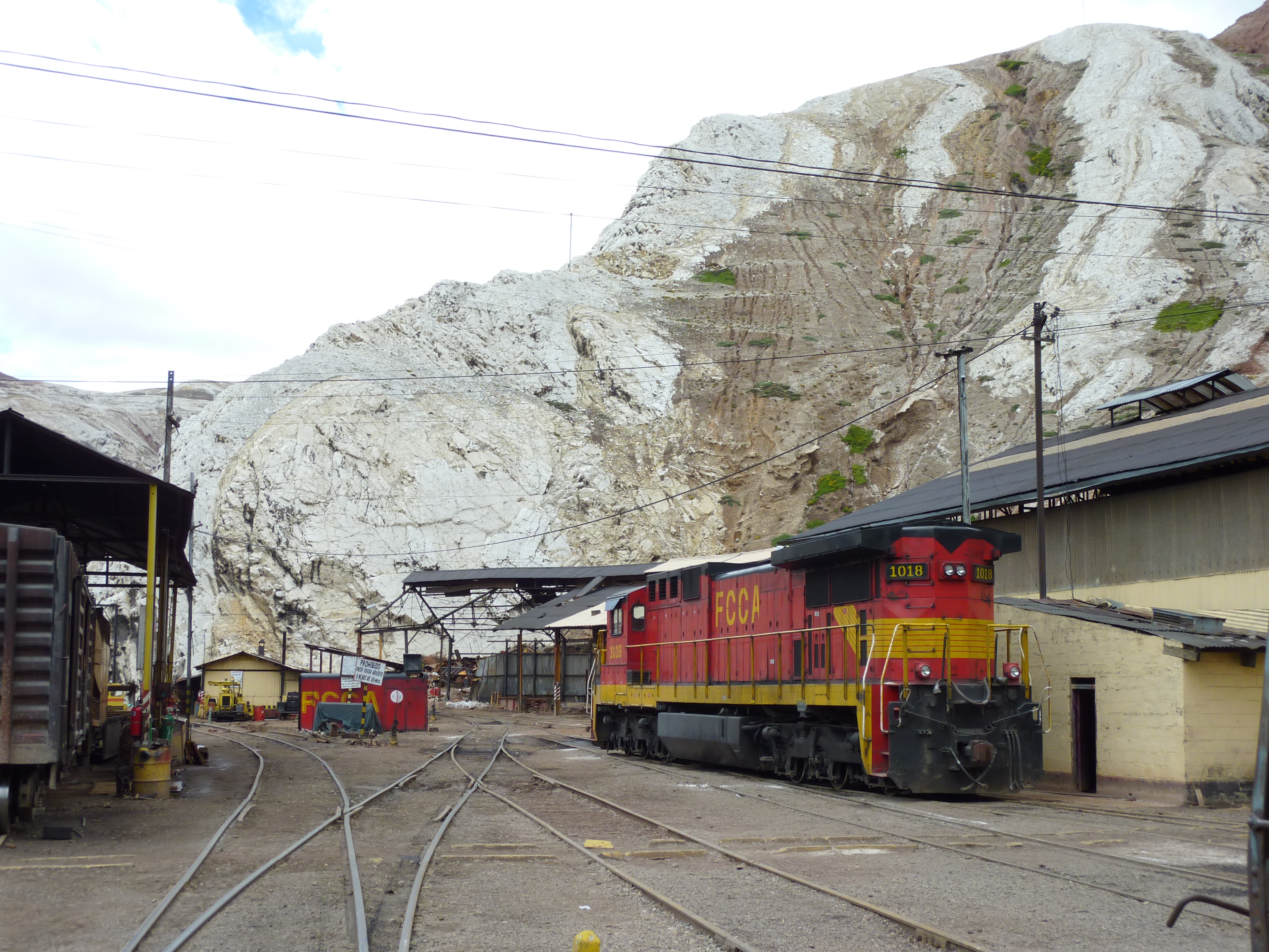 Railway station La Oroya in Peru